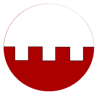 Insignia of the German 319th Infantry Division